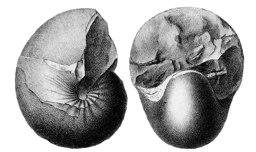 Eutrephoceras dorbignyanum (Forbes in Darwin, 1846) - Santiago specimen